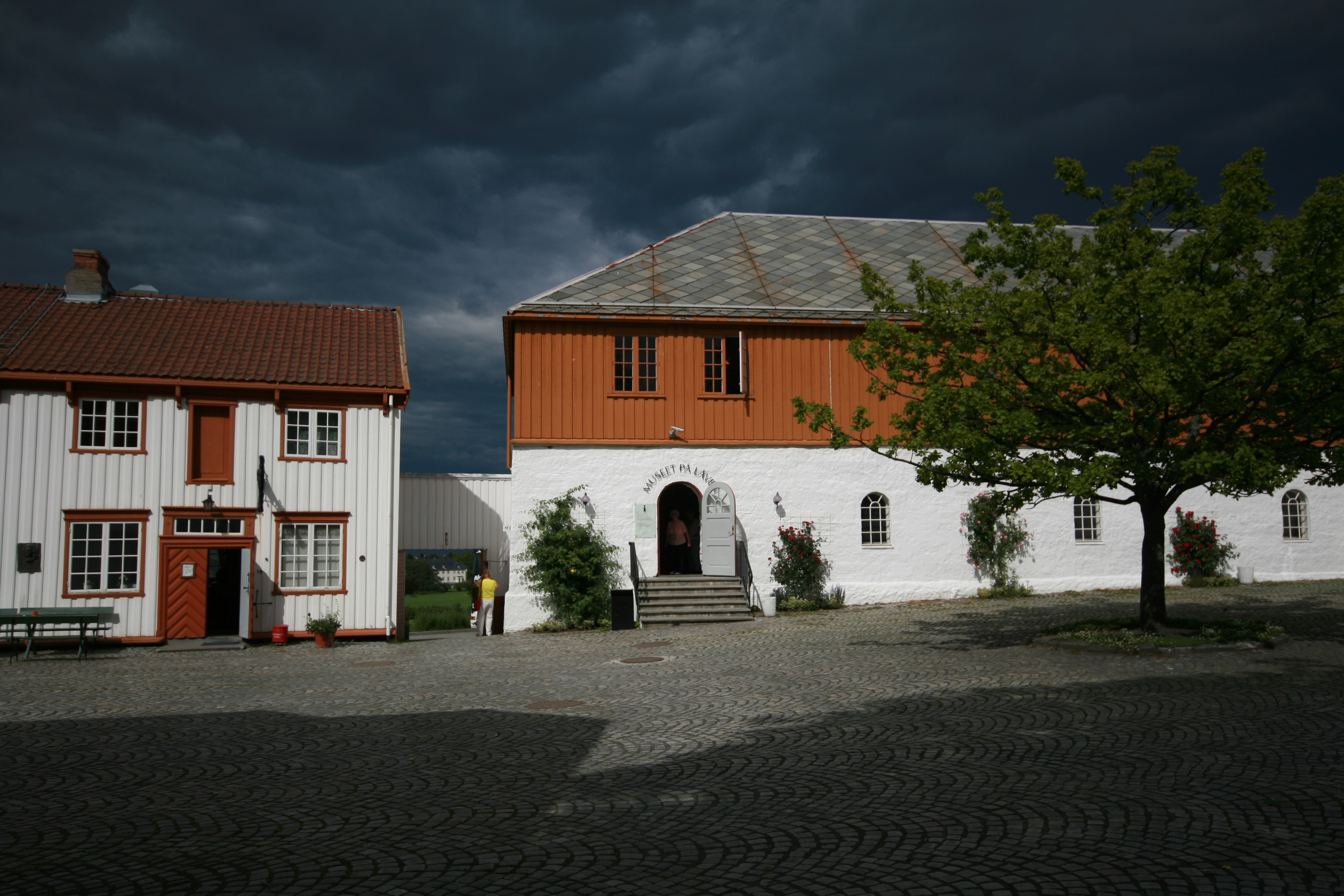 The court at Ringve on a dark summer day.